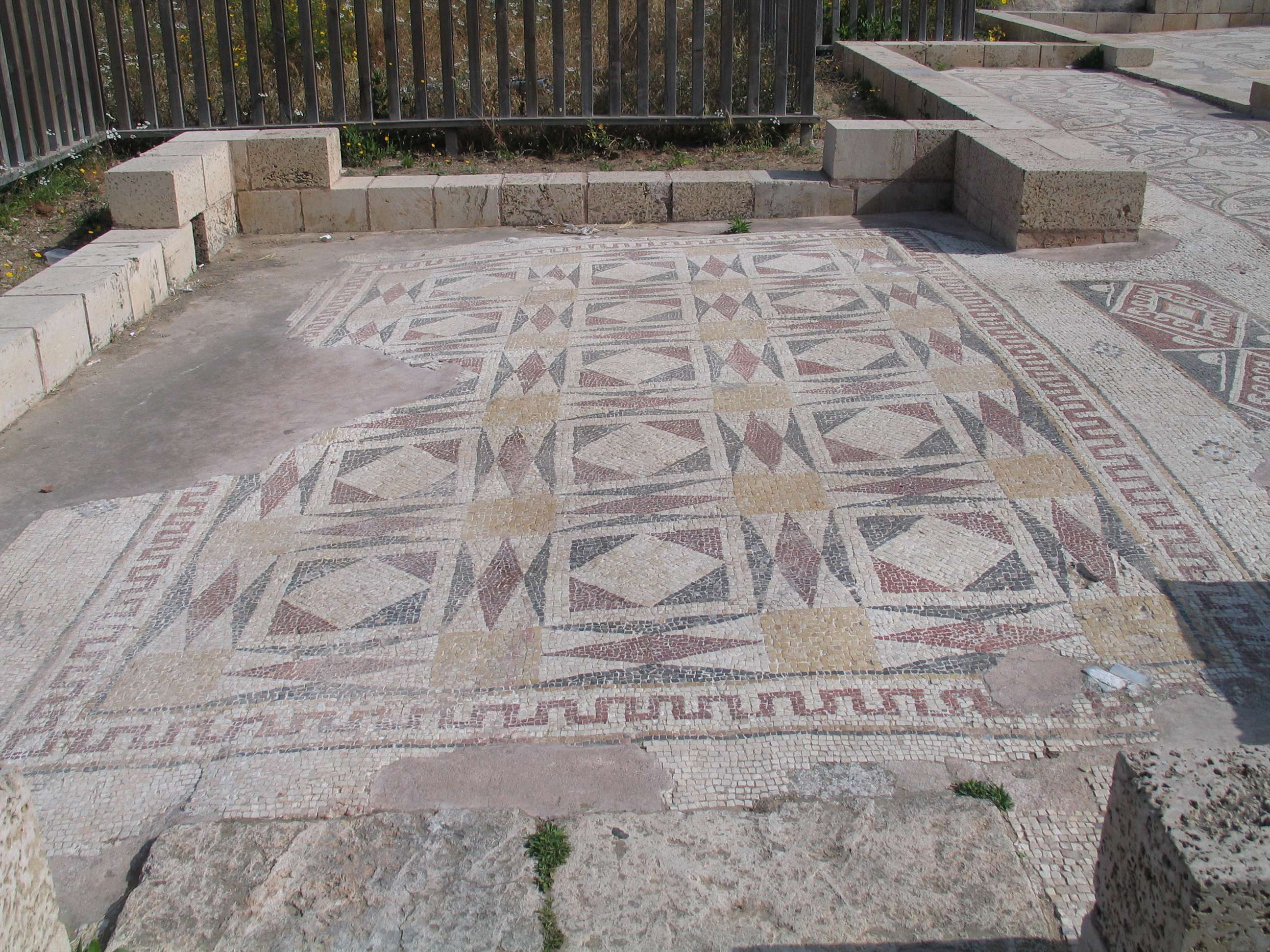 Caesarea Maritima, Israel. The "bird mosaic".